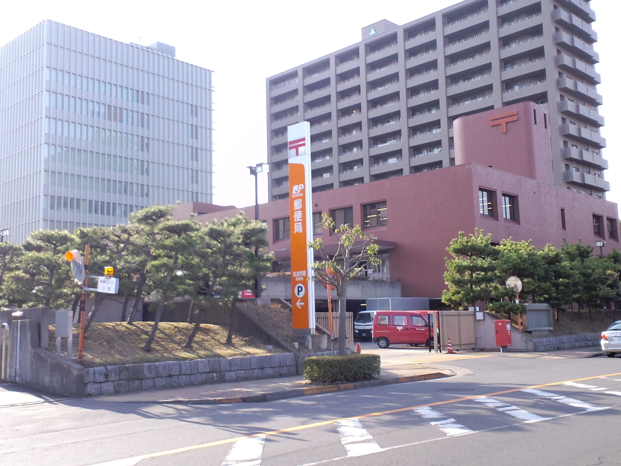 Tsukuba-Gakuen post office main gate.